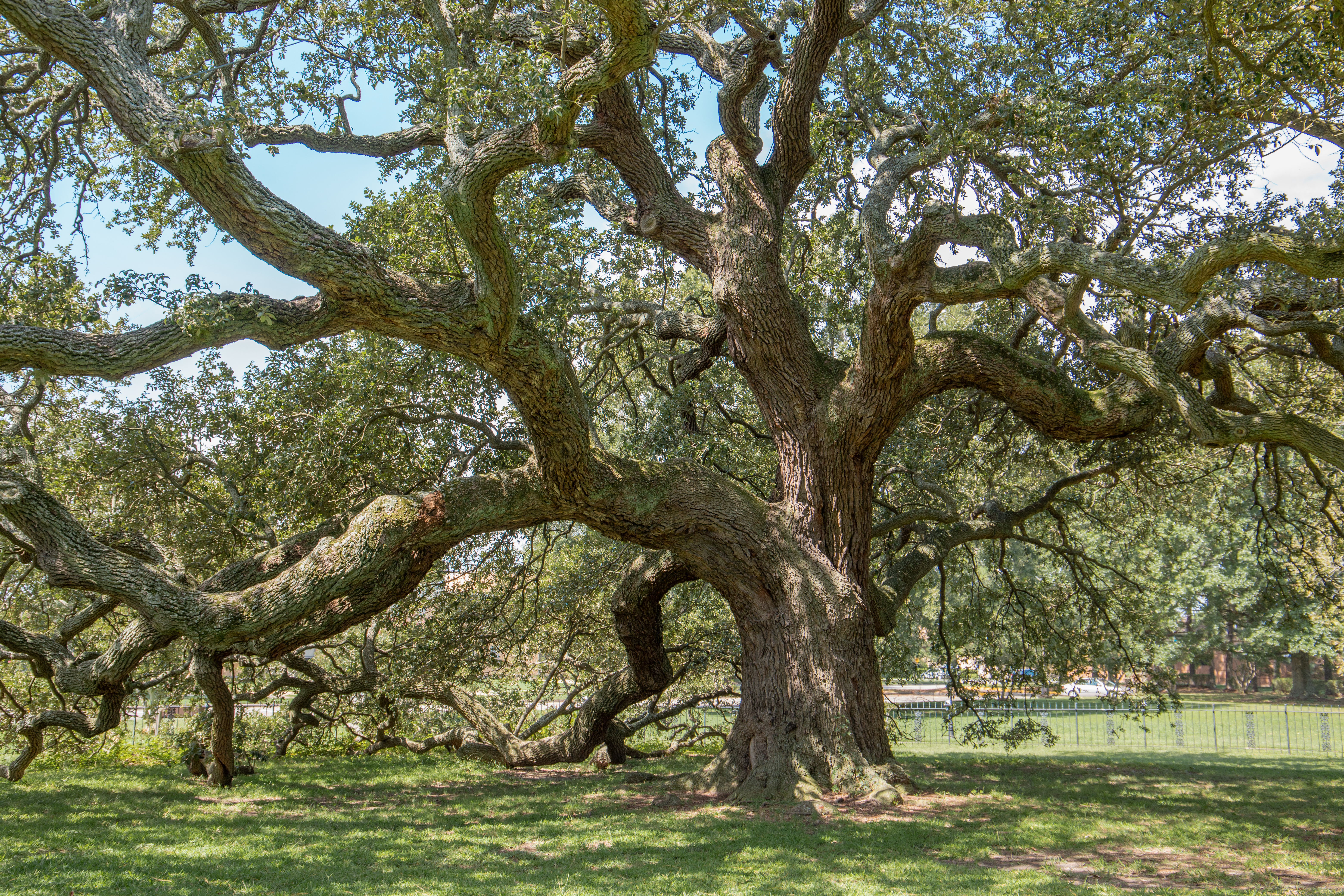 A photograph from beneath the canopy of Emancipation Oak, a historic Southern Live Oak on the campus of Hampton University.